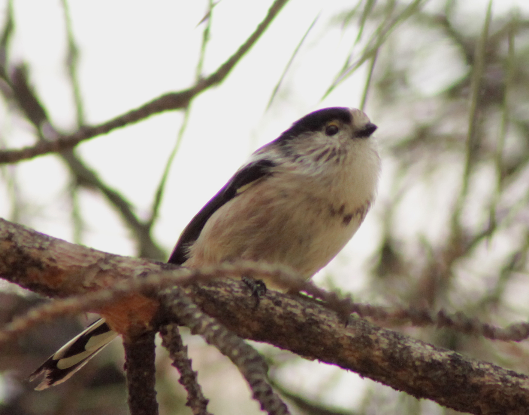 A Long-tailed Tit (Aegithalos caudatus irbii) in Madrid (Spain).